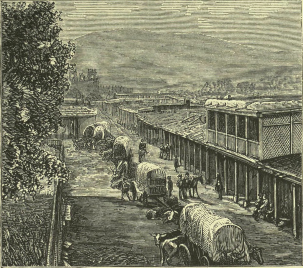 Wood engraving of a street scene in Santa Fe, New Mexico.